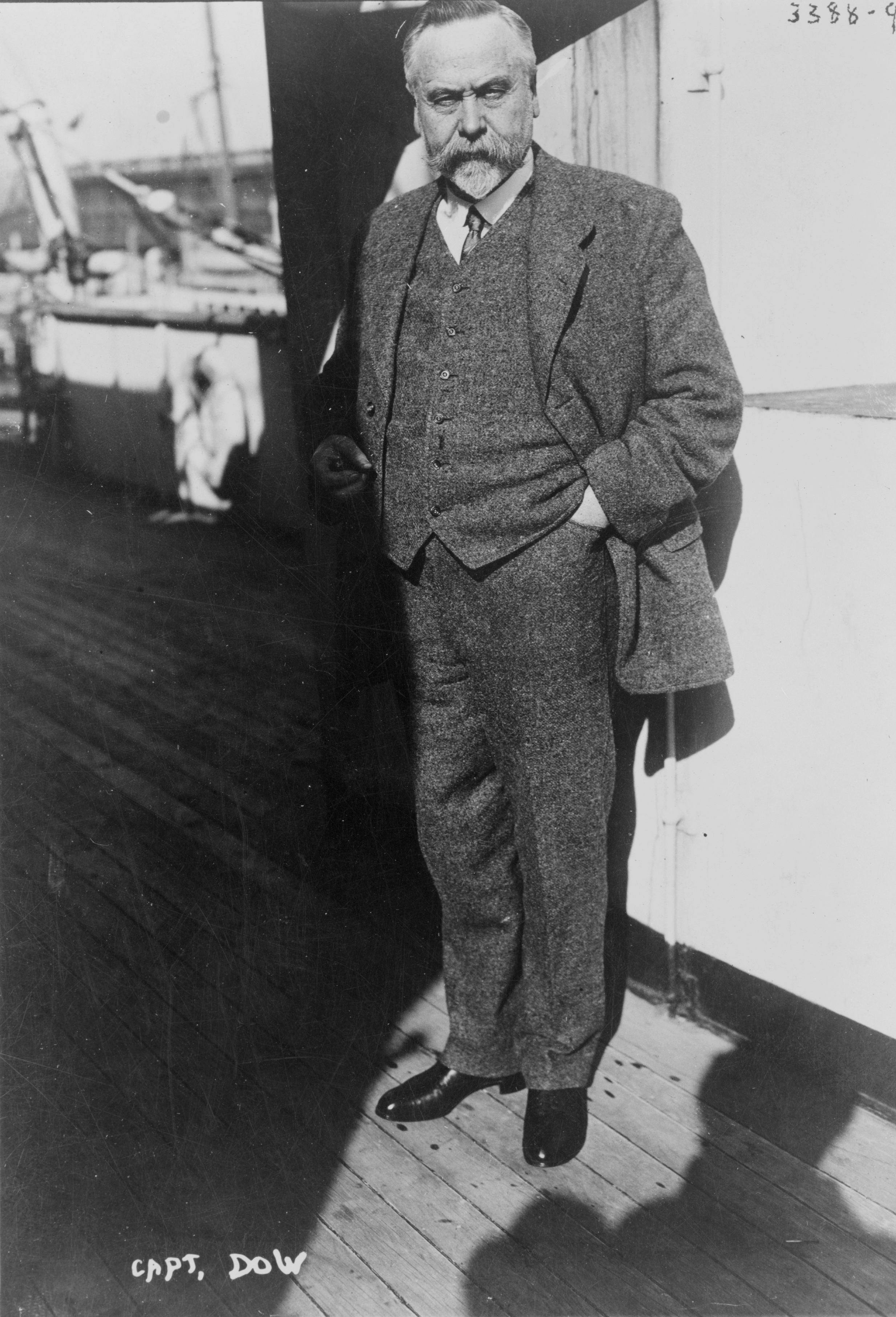 This file is listed by LOC as David Dow, captain of RMS Lusitania. However the captain of Lusitania (apparently the man in the picture) was Daniel Dow.